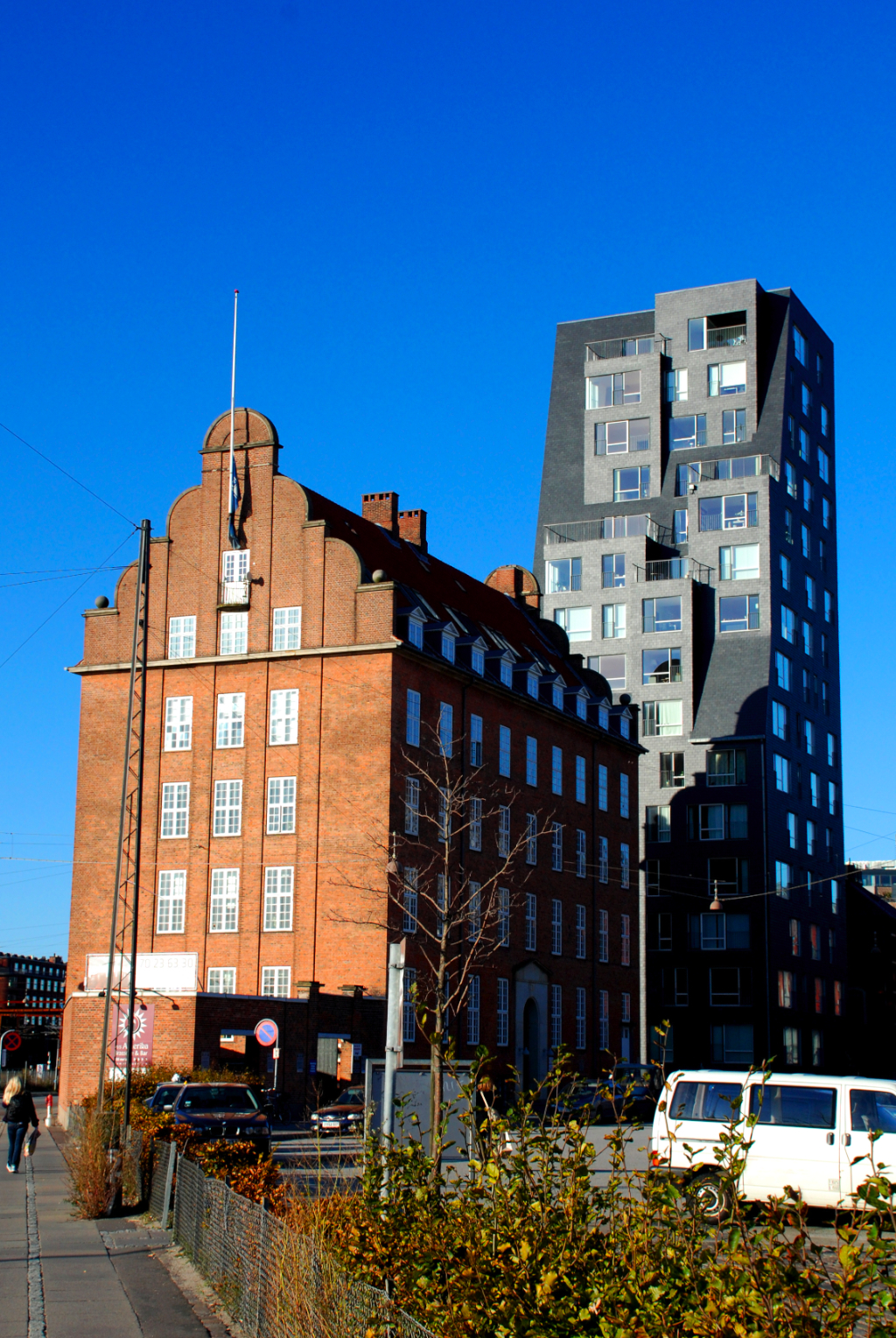 New and old building in the former Free Port area of Copenhagen, Denmark. The new building is Fyrtårnet designed by Lundgaard & Tranberg